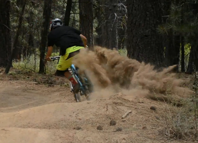 Enduro rider ruins IMBA trail workers day by exploding a berm during a race.